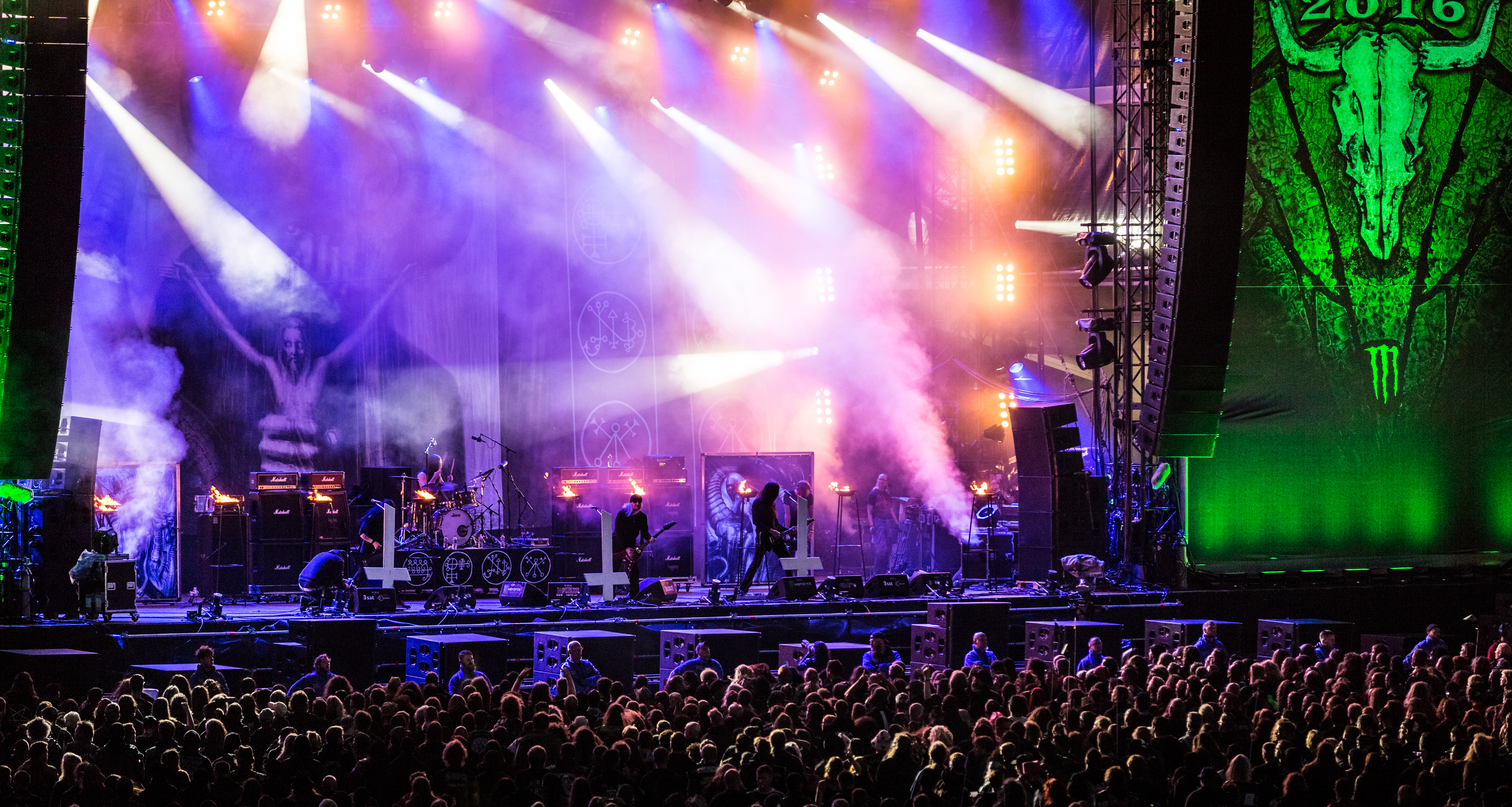 Triptykon - Wacken Open Air 2016